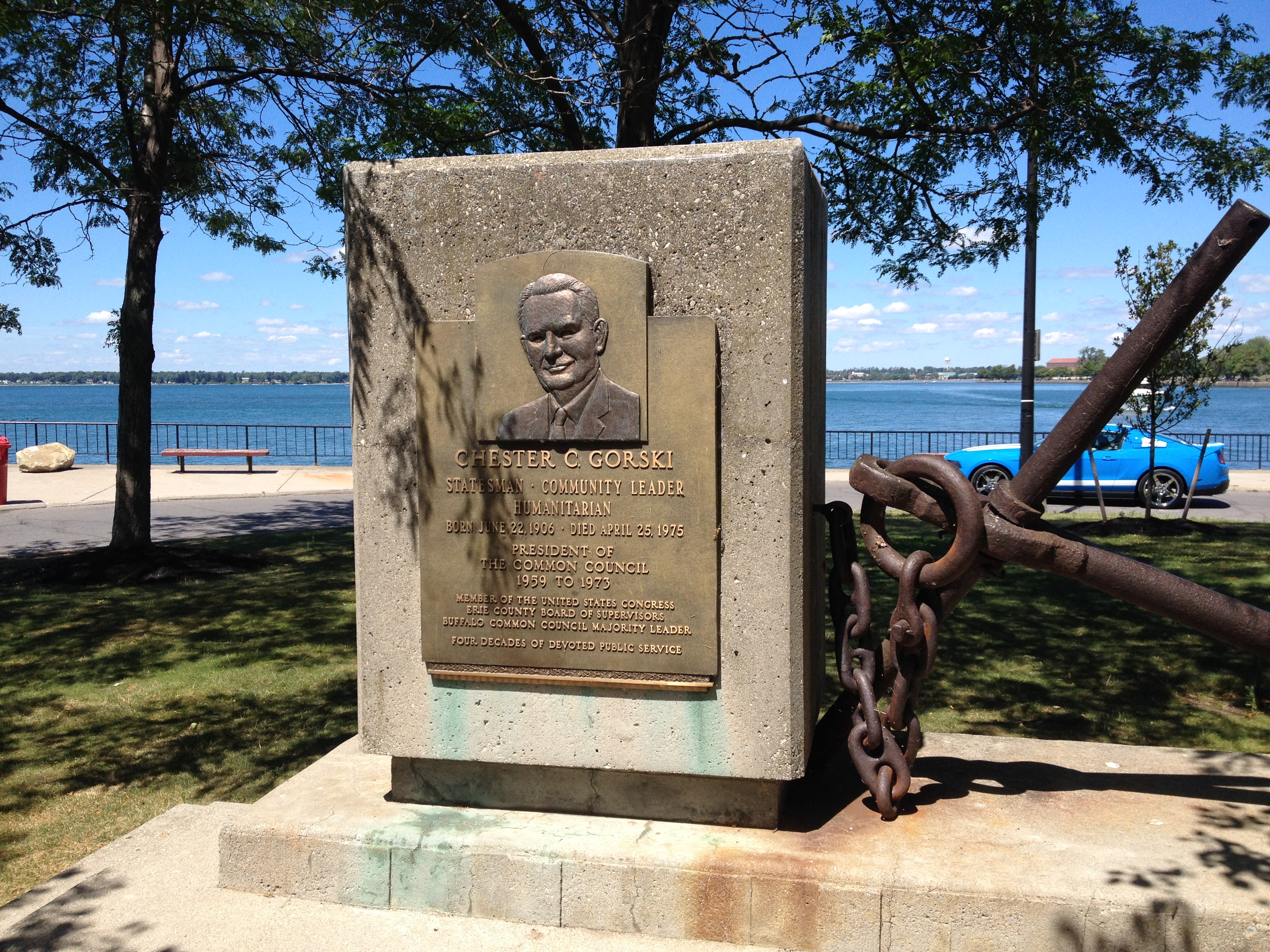 Memorial to Chester C. Gorski, New York Congressman and Buffalo City Council President. Located at Erie Basin Marina near Observation Tower in Buffalo. Bronze plaque with image-in-relief of Gorski. Concrete base, flanked by iron boat anchor and chain. Inscription reads: "Chester C. Gorski, Statesman, Community Leader, Humanitarian. Born June 22, 1906. Died April 25, 1975. President of the Common Council, 1959 to 1973, member of the United States Congress, Erie County Board of Supervisors, Buffalo Common Council Majority Leader, Four Decades of Devoted Public Service."